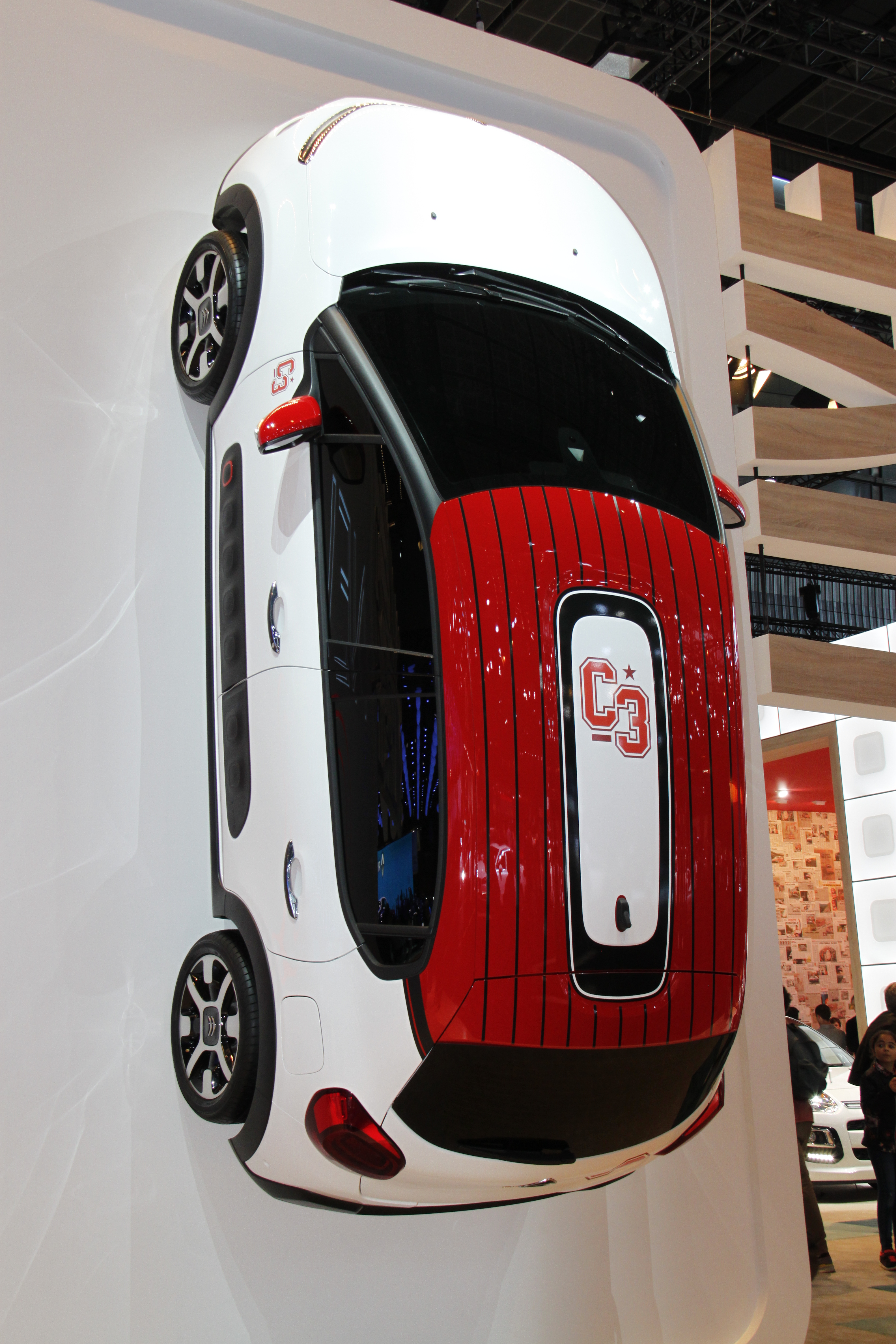 Citroën C3 (3rd gen.) at the 2016 Paris Motor Show